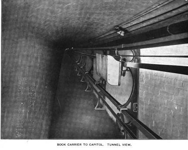 Book Carrier to Capitol